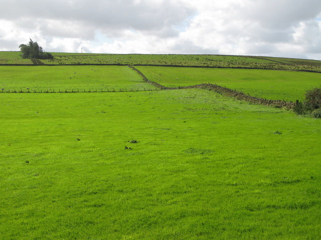 (The site of) Milecastle 47 (2), near to Greenhead, Northumberland, Great Britain.